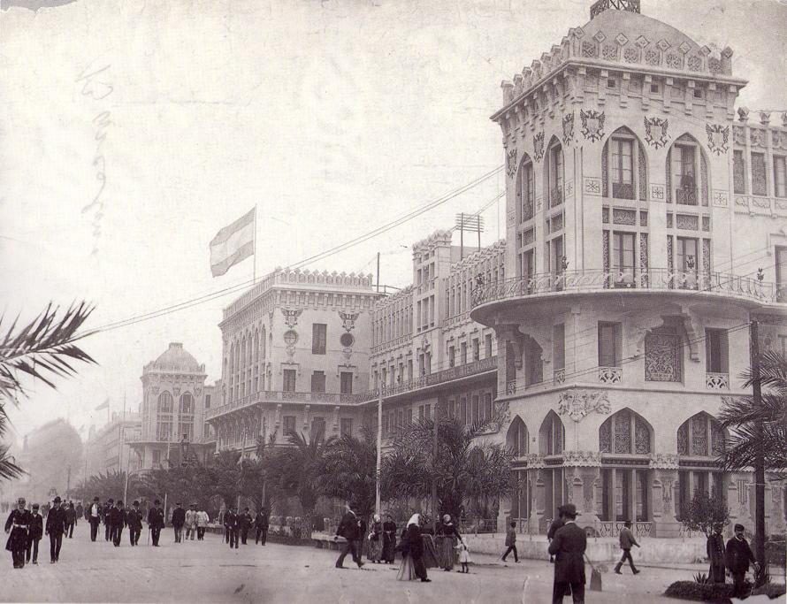 Hotel Internacional, projected by Lluís Domènech i Montaner for the Universal Exhibition at Barcelona, 1888; demolished in 1890